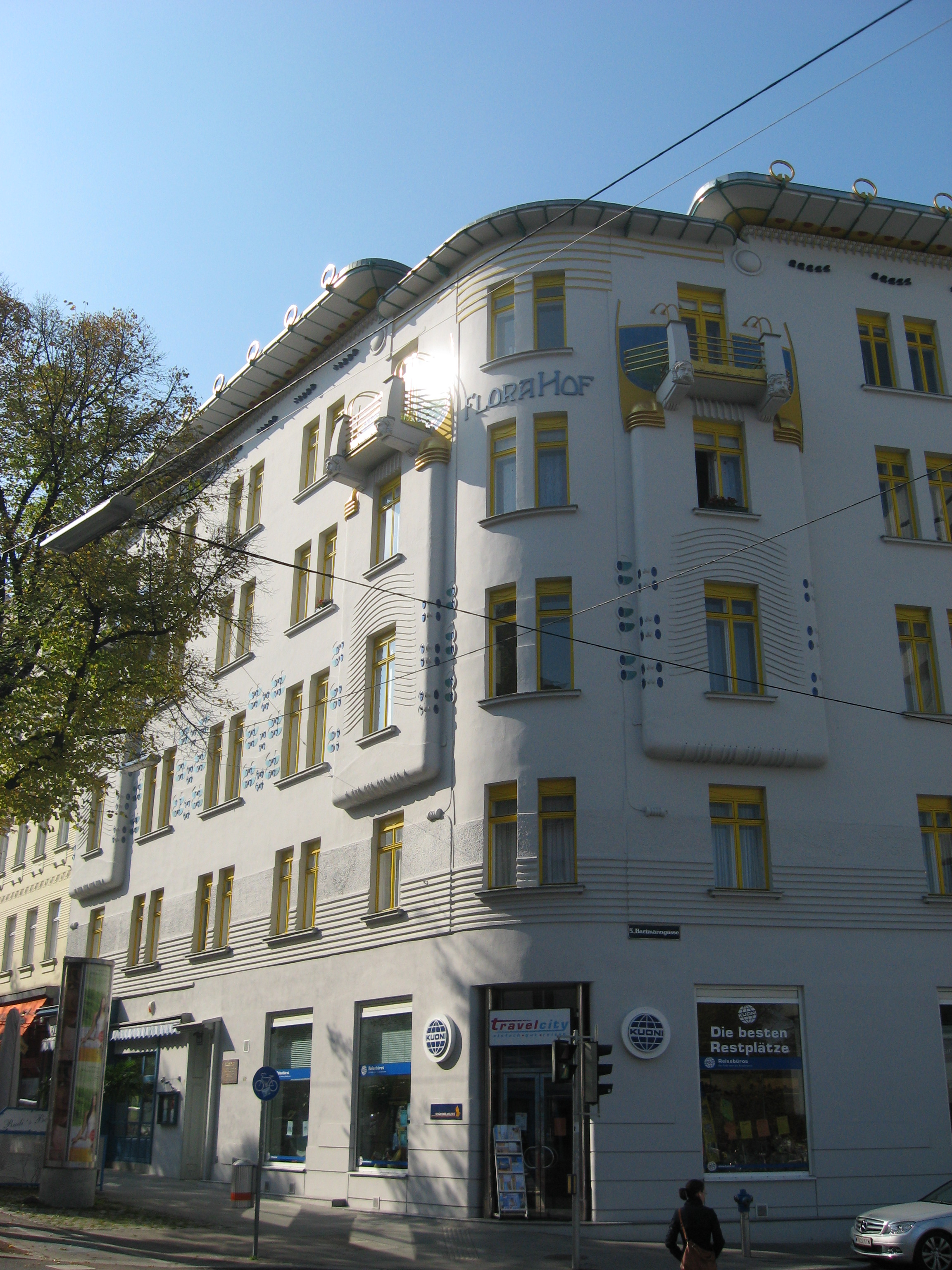 Florahof, Viennese art nouveau building on Wiedner Hauptstrasse